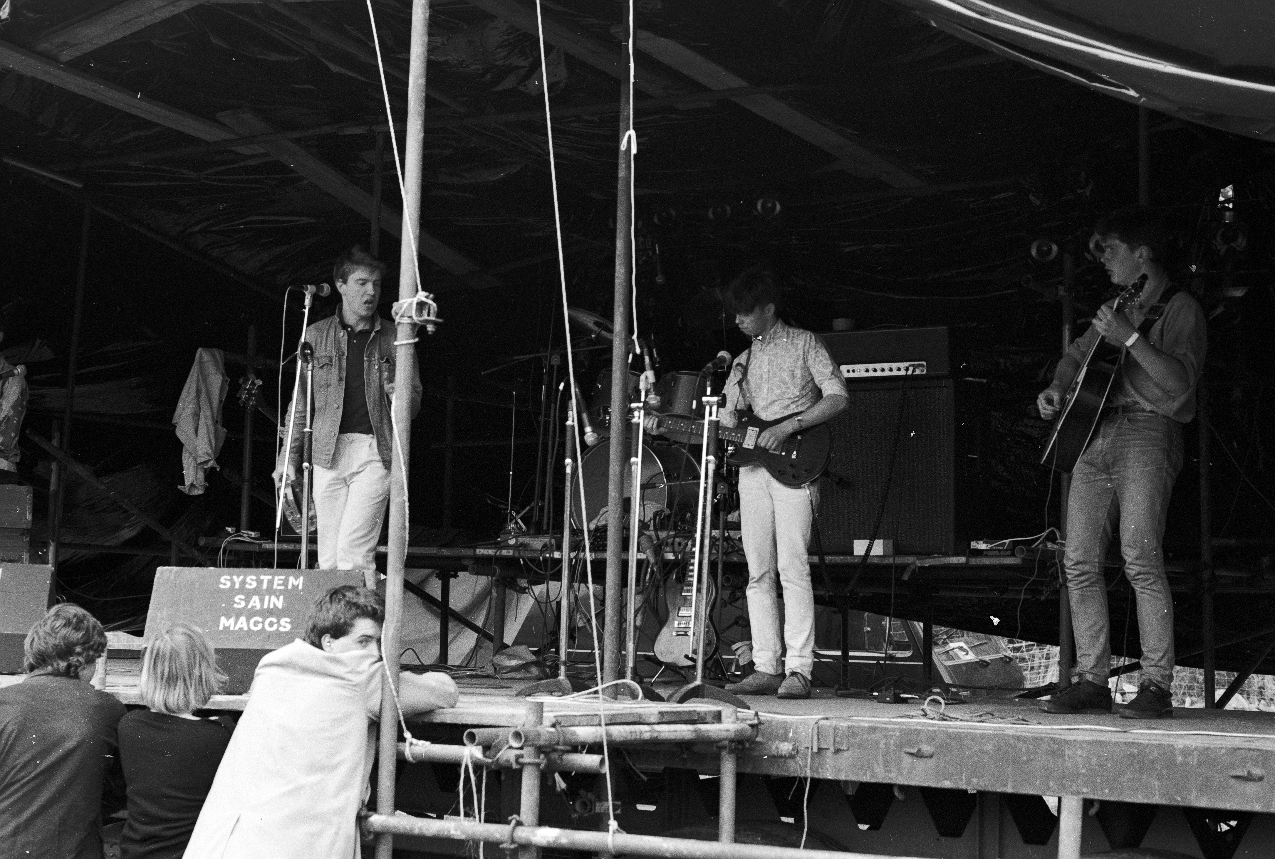 Welsh band, Datblygu. Image by Medwyn Jones